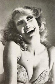 Mónica Brando- vedette argentina